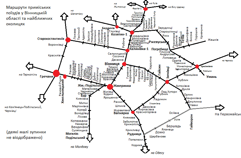 Маршрути приміських поїздів у Вінницькій області